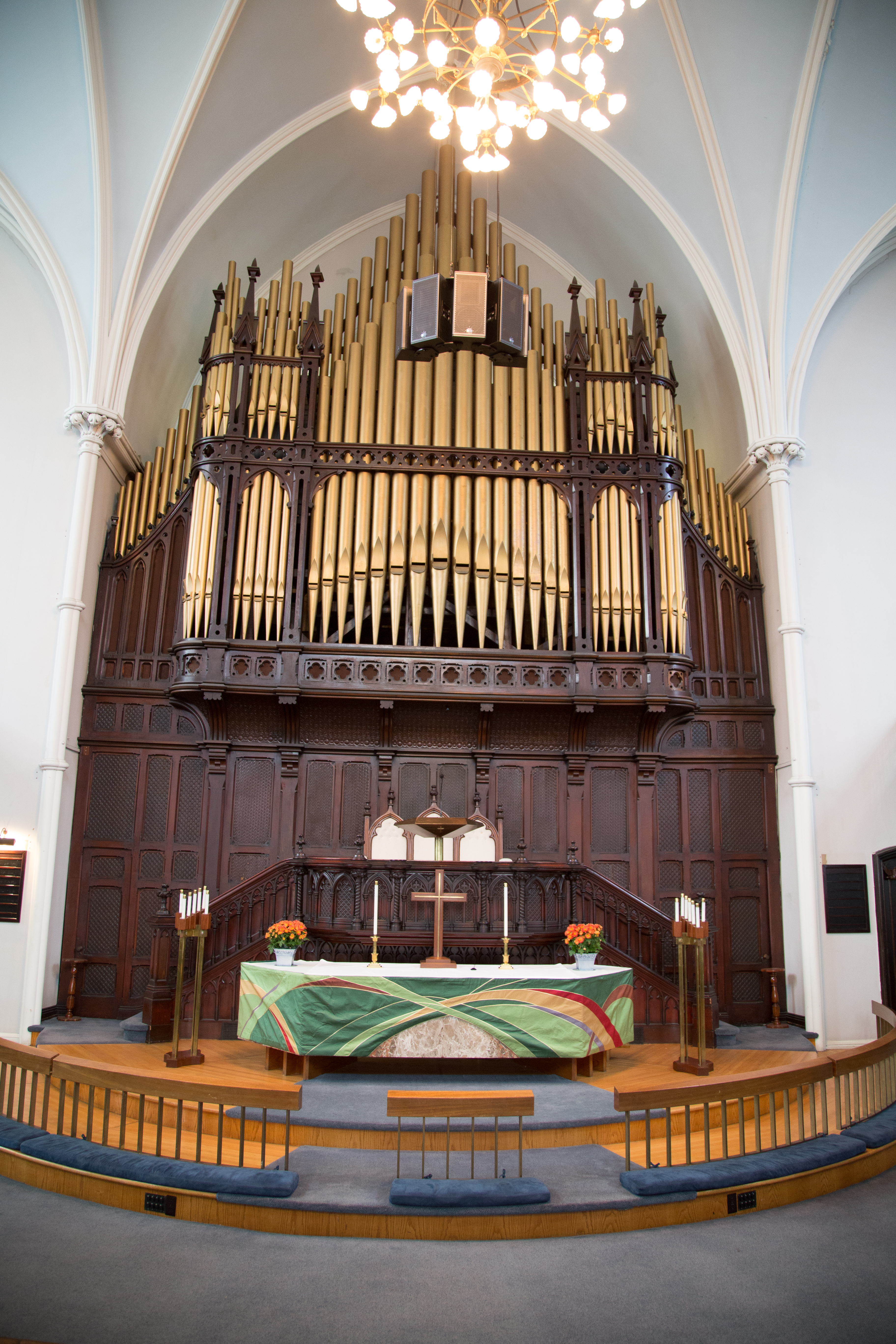 The pipe organ inside St. Andrew's Evangelical Lutheran Church in Toronto